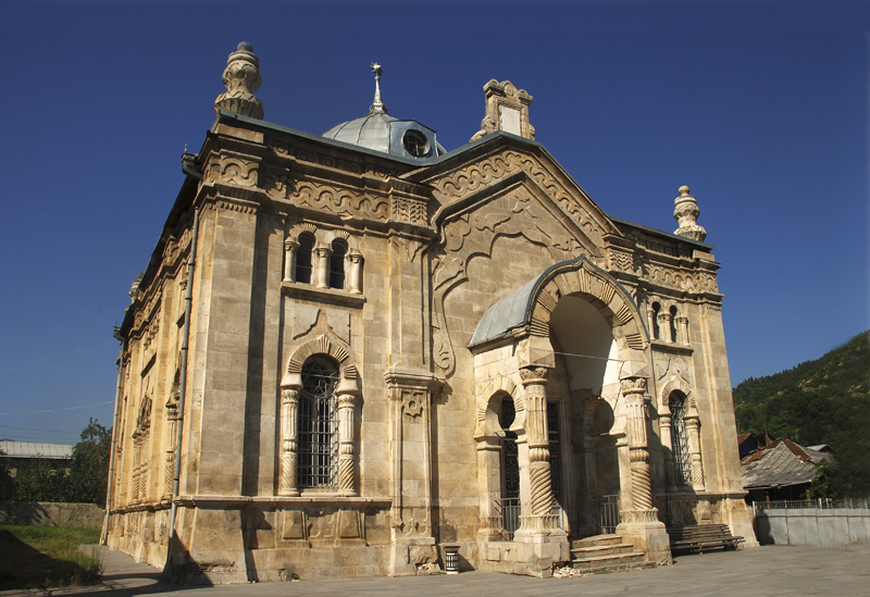 The Oni Synagogue — Classical Georgian style stone temple in Oni, Georgia.